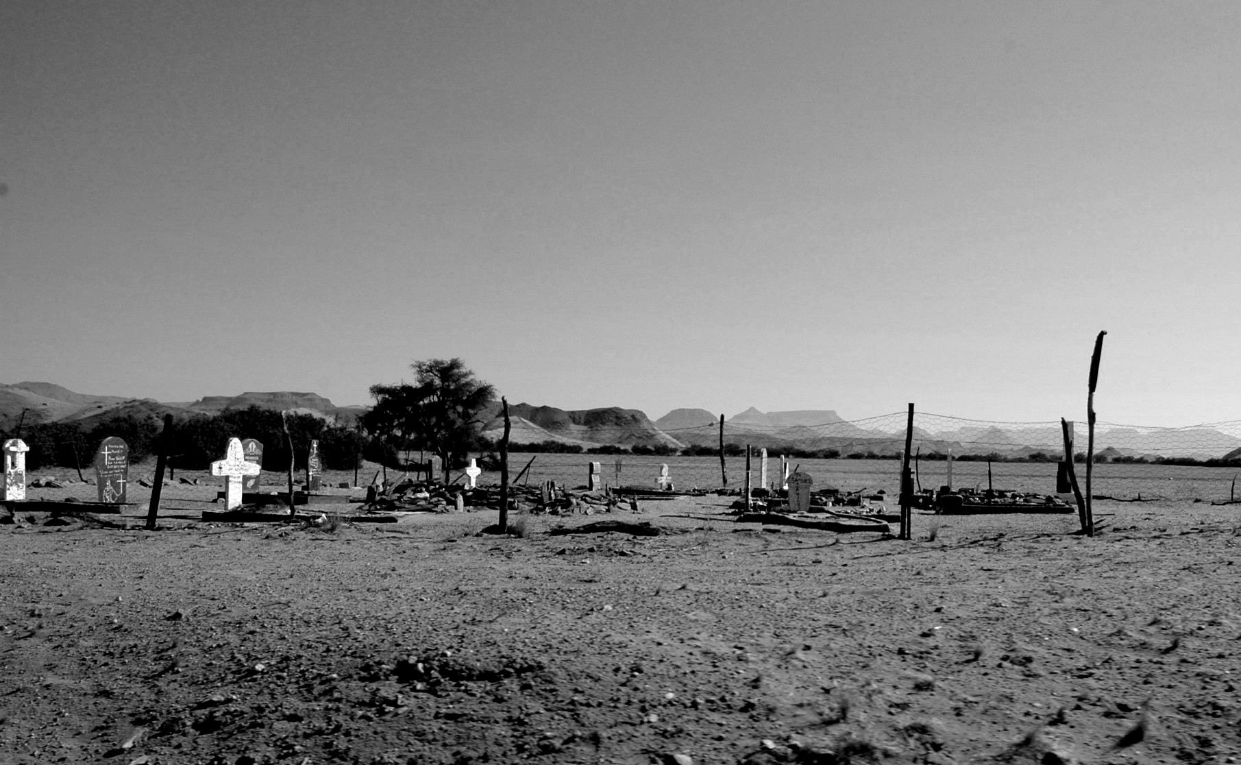 Cemetery at Sesfontein, Namibia